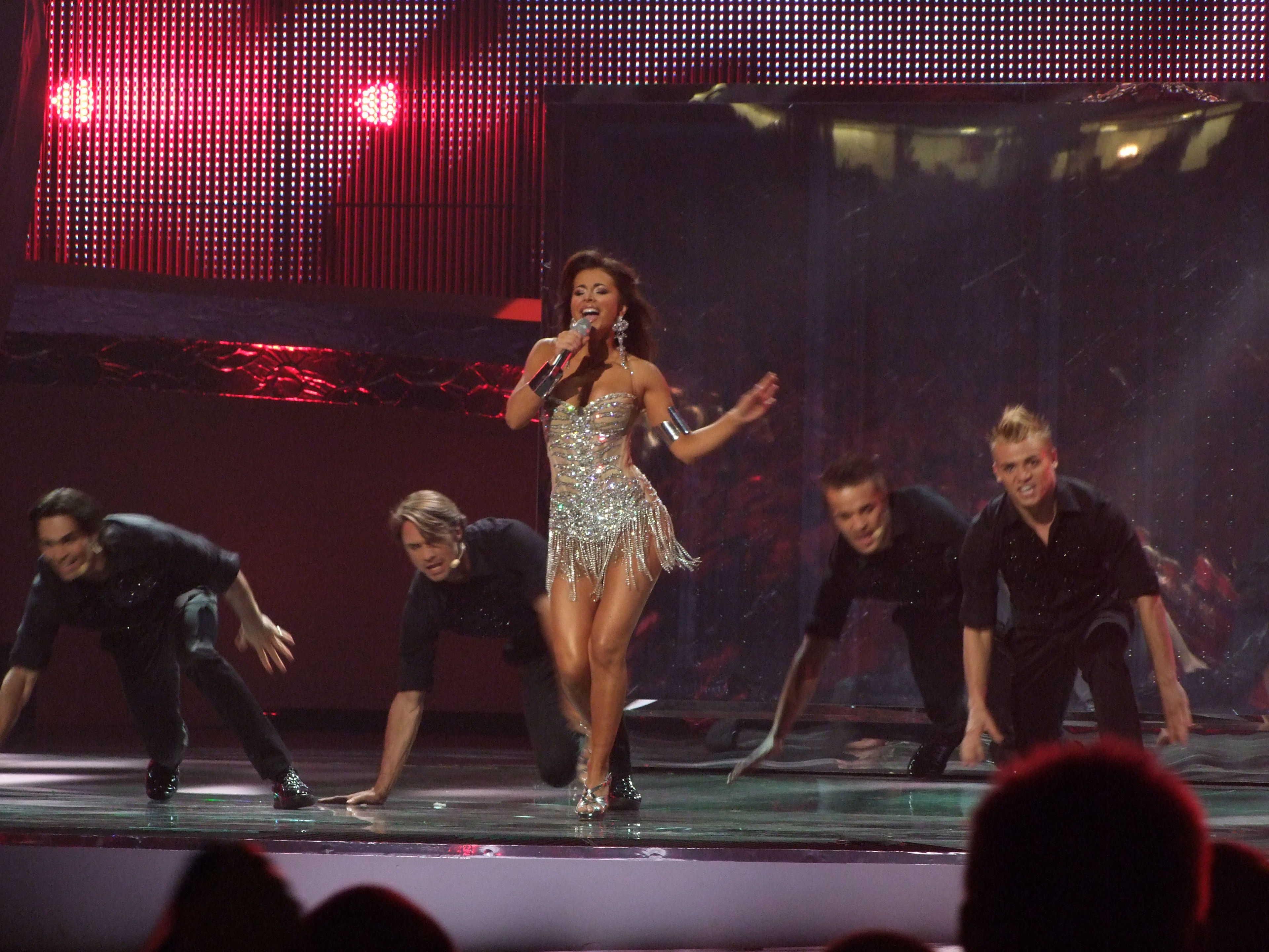 Ani Lorak (Ukraine) performing Shady Lady at final, Eurovision Song Contest 2008 in Belgrade, Serbia, May 24, 2008